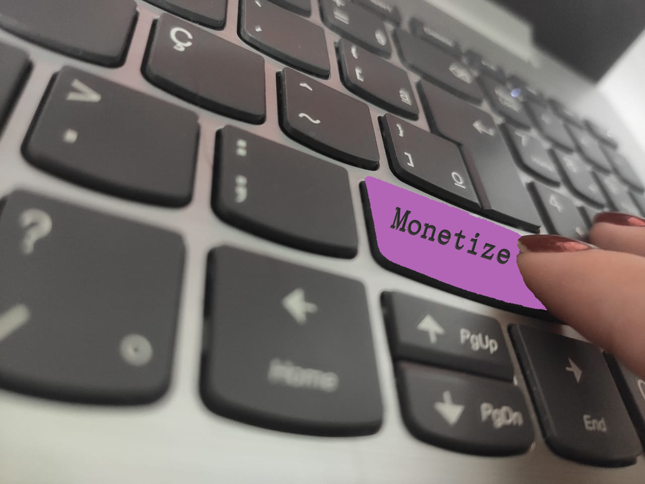 In this image it shows how that monetization works nowadays, it's everything in a tiny little screan of a computer and a huge world of oportunity ahead of you.